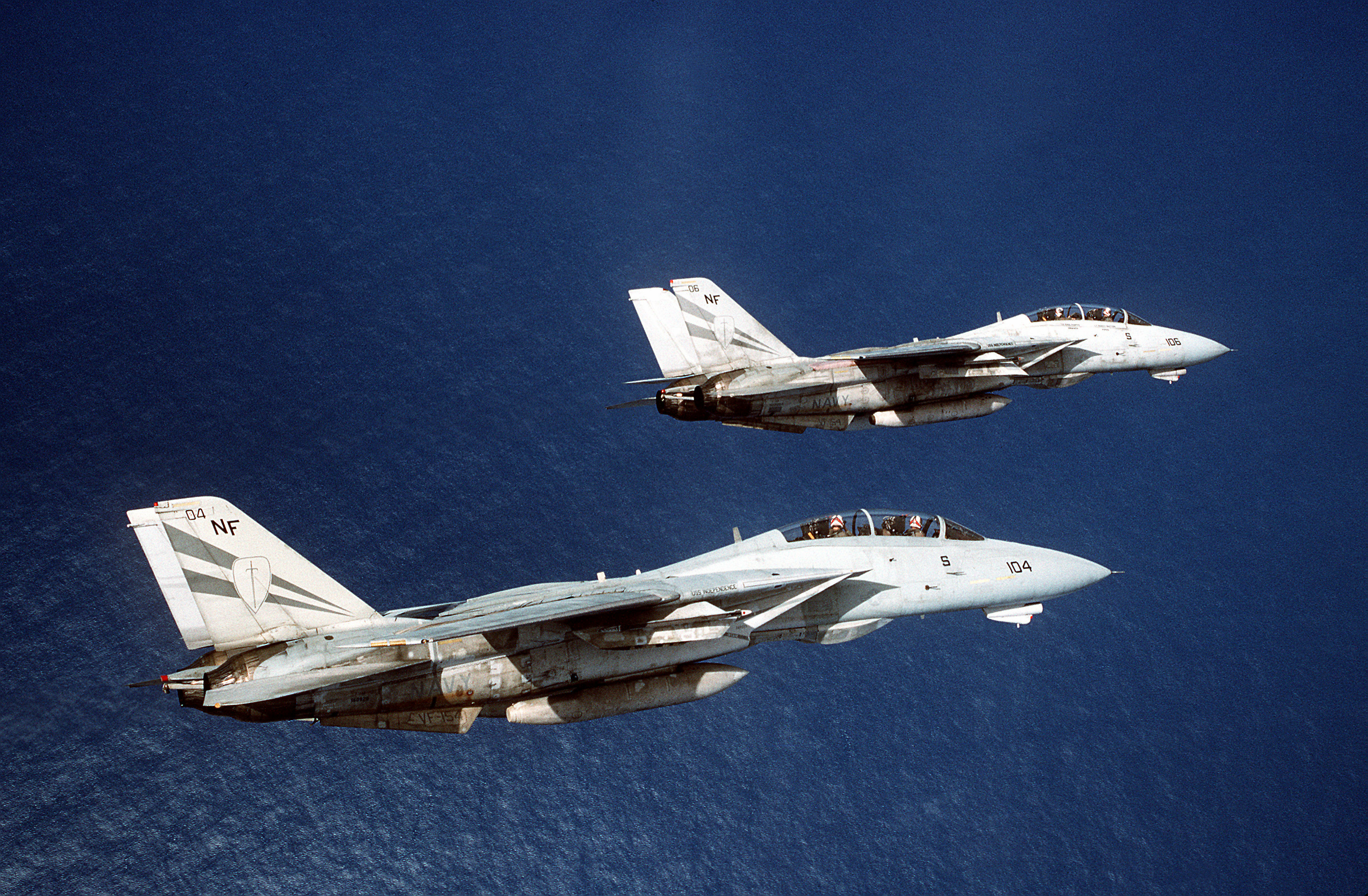 Two F-14A Tomcat aircraft of Fighter Squadron 154 (VF-154) perform a section roll off Saipan in the Mariana Islands.